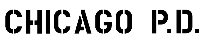 Chicago P.D Logo